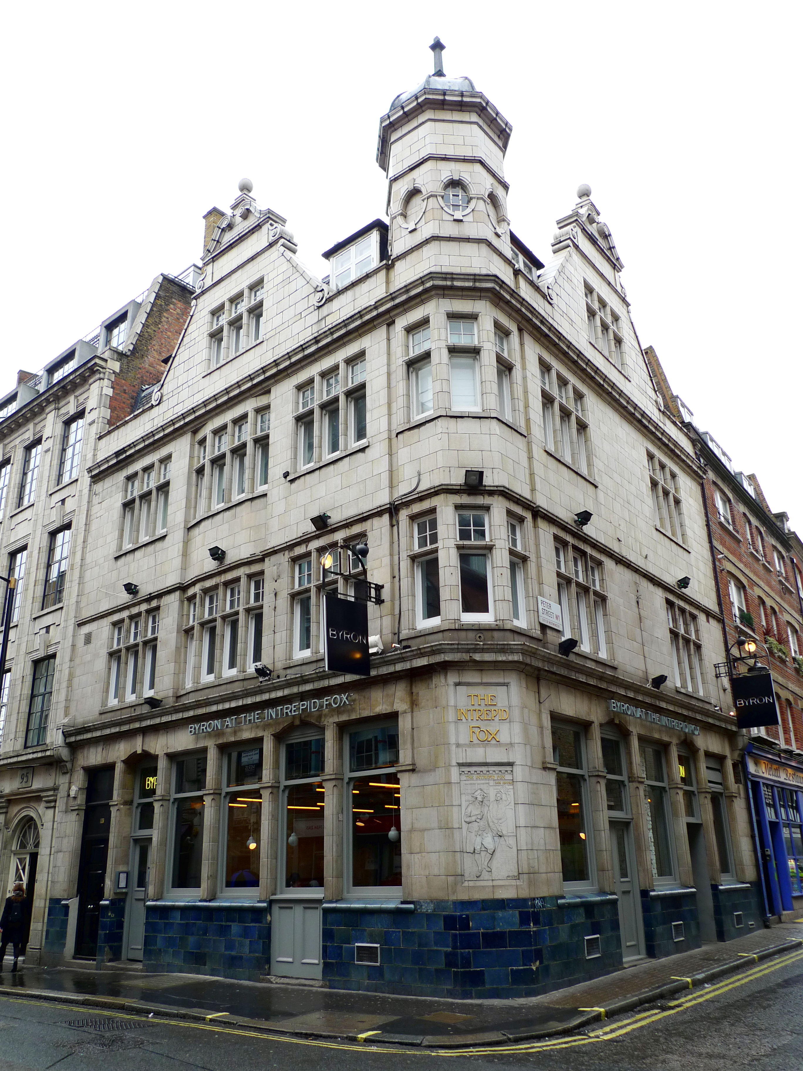 A former pub, now converted to a burger restaurant. Pretty decent quality too. (Photos of burger and courgette fries.) (Photo of it as The Intrepid Fox, closed.) Address: 97-99 Wardour Street. Owner: Gondola Group [Byron] (website); Mitchells and Butlers (former); Taylor Walker (former). Links: Randomness Guide to London London Eating Qype Fancyapint (The Intrepid Fox) Beer in the Evening (The Intrepid Fox) Dead Pubs (history) --- Bellaphon [Les] Dos Hermanos [Simon Majumdar] A Rather Unusual Chinaman [EuWen Teh]